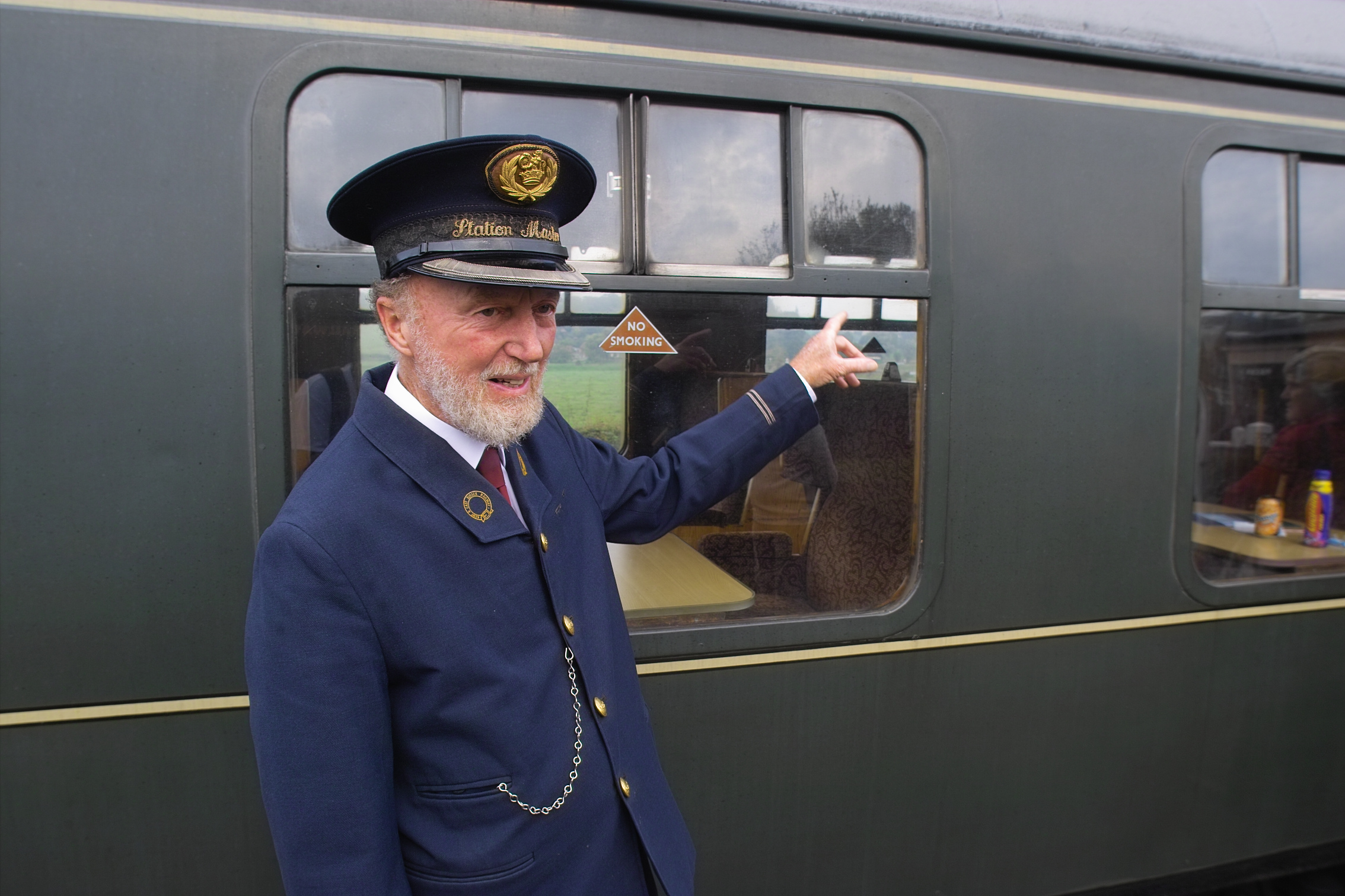 The Station Master at Bodiam railway station, East Sussex, on the Kent and East Sussex Railway, October 2005.